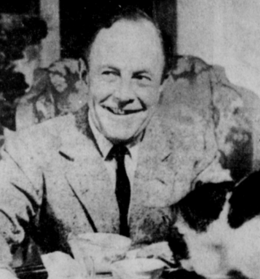 Beverley Nichols British journalist and writer.